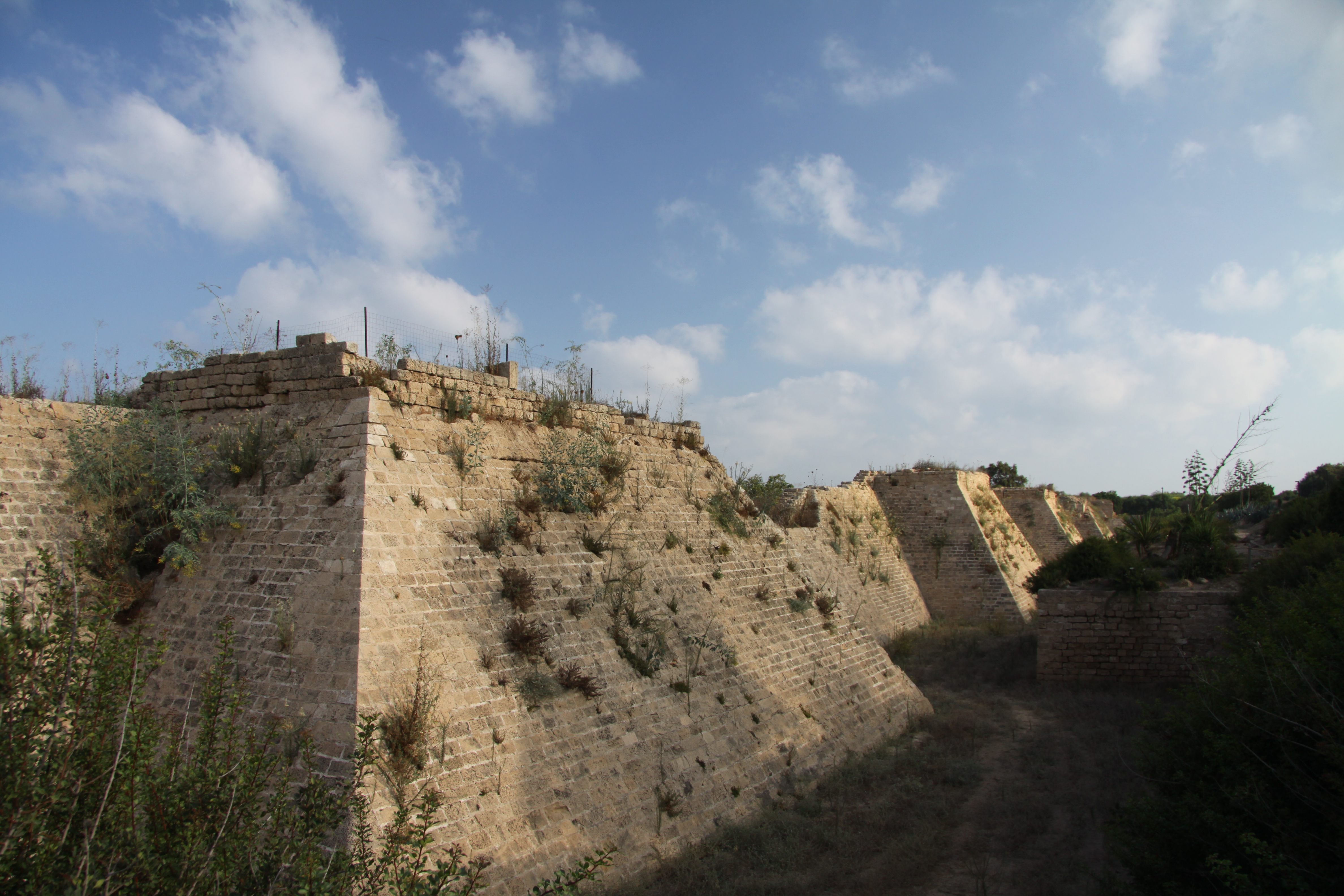 Part of Caesarea Maritima - City Walls in Israel